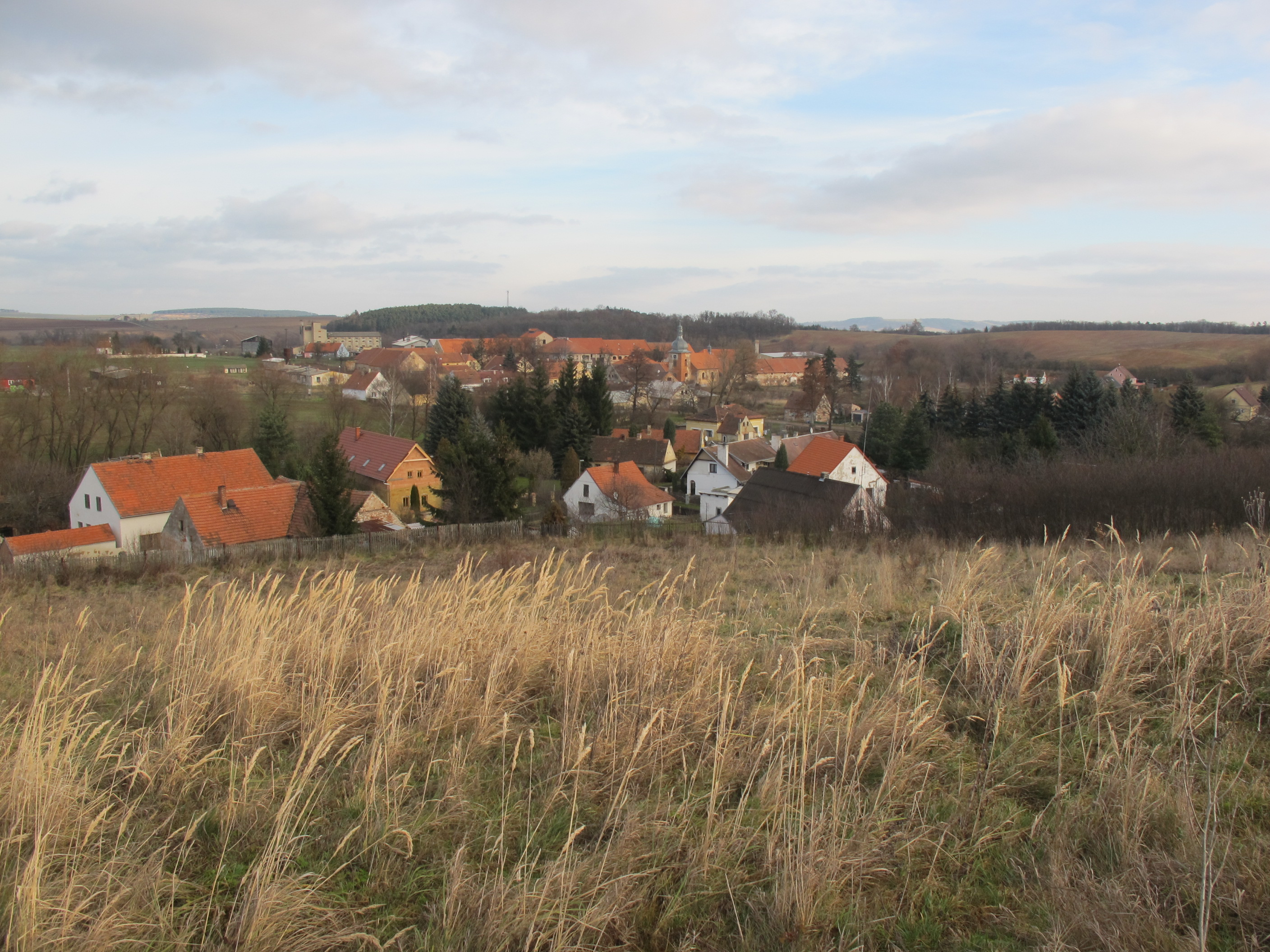 Total view of Vidhostice